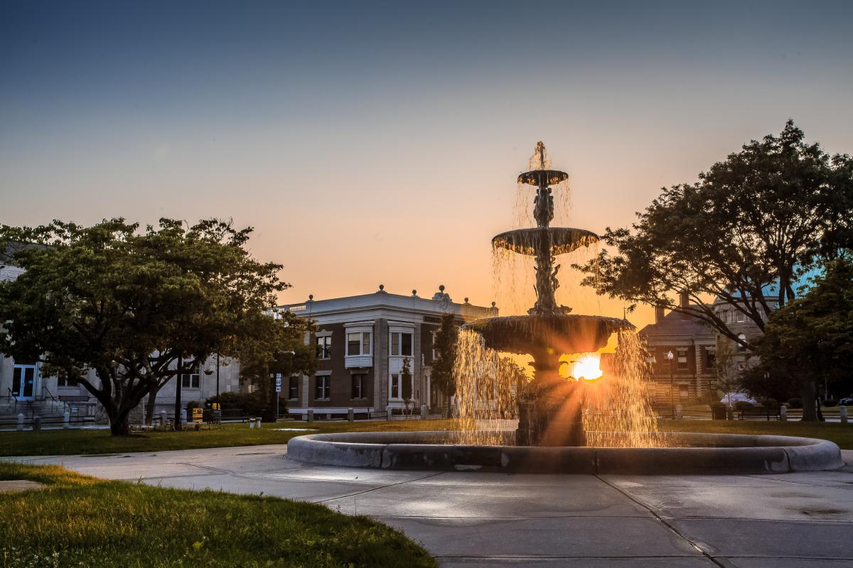 Taunton Green Taunton MA